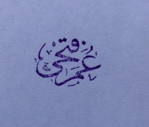 Signet of Ibrahim el Awal ship.